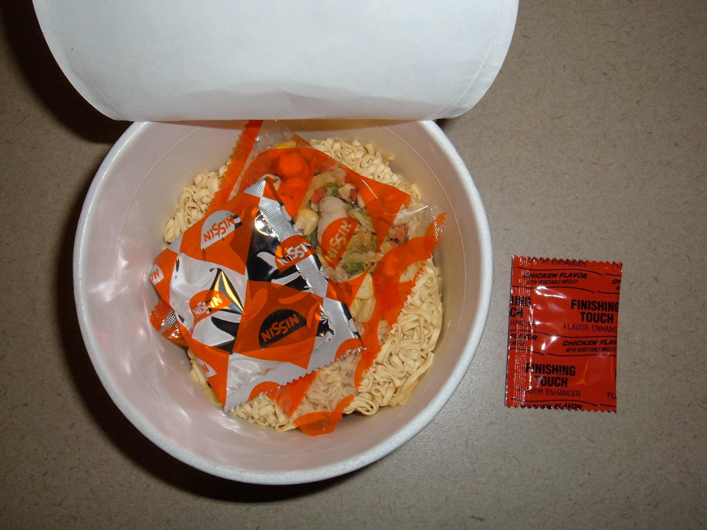 Cup of Nissin Foods' Souper Meal, Chicken with Vegetable Medley, showing the distribution of the three packets with two in the package on top of the noodles and the third formerly on top.